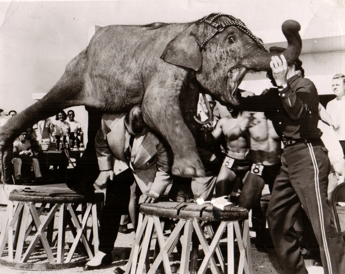 Heinrich "Milo" Steinborn lifting a 400 kg elephant on the Chicago World's Fair in the year 1950